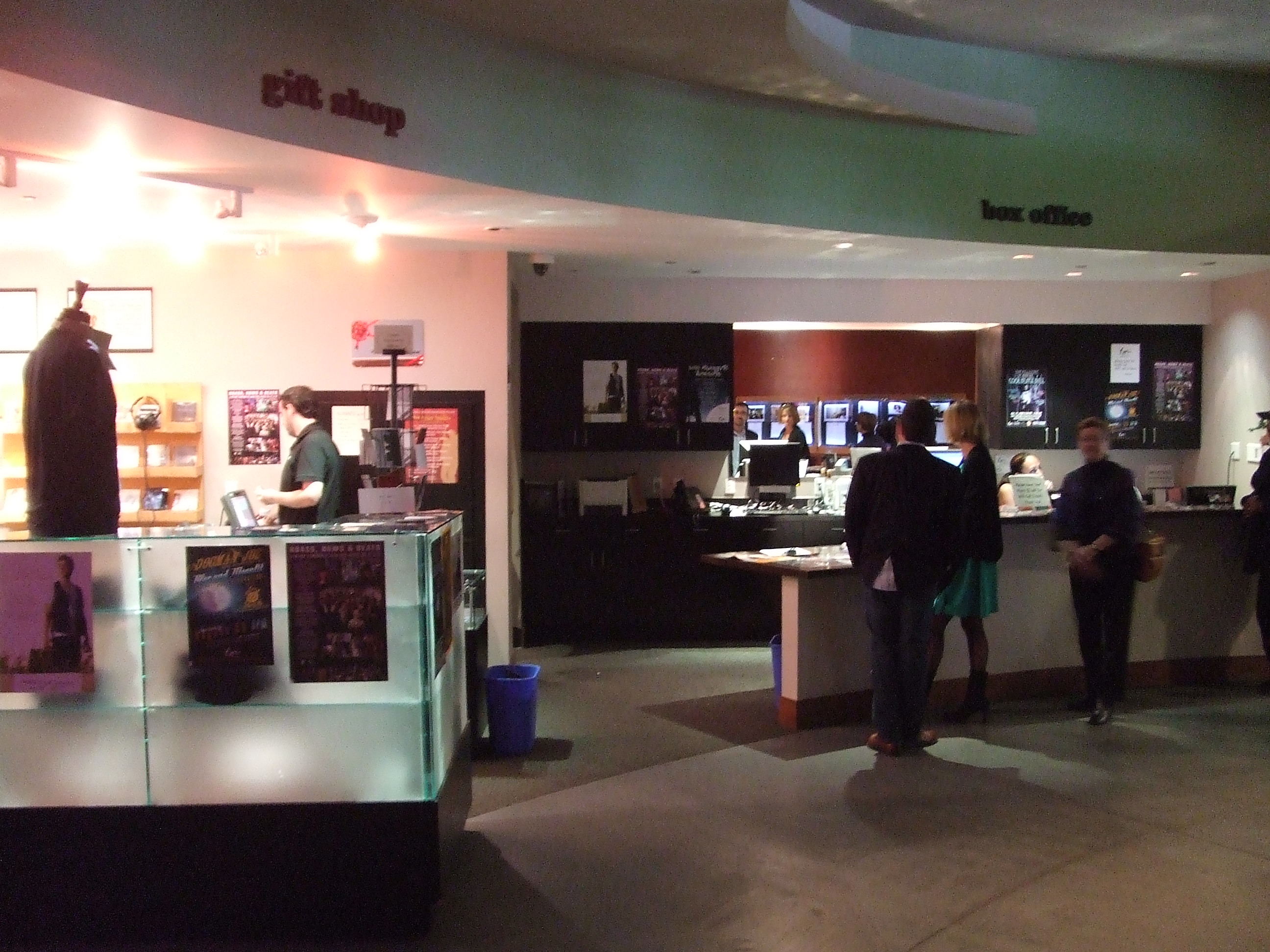 Yoshi's San Francisco